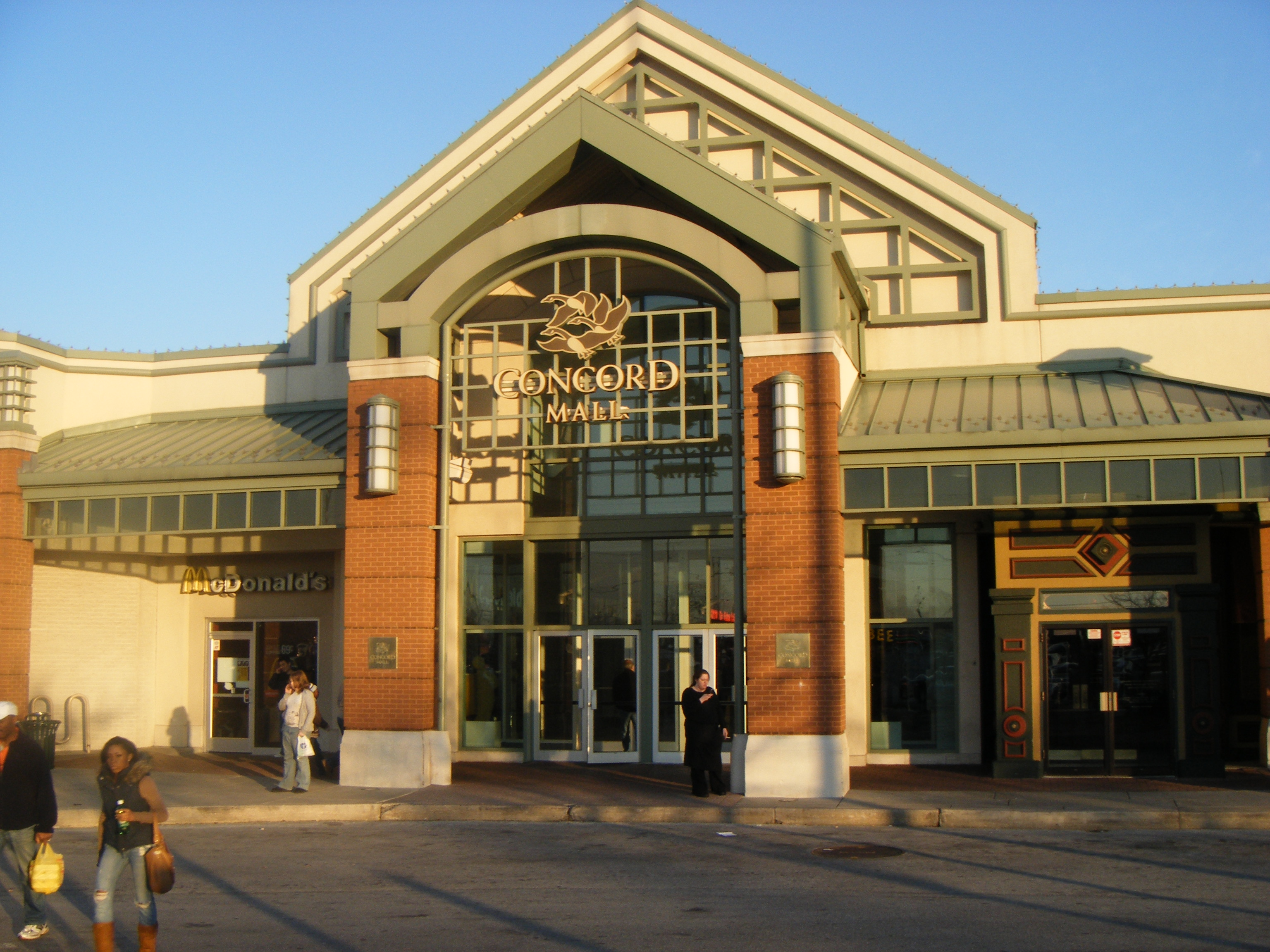 A photo of the north entrance to the Concord Mall in Wilmington, Delaware